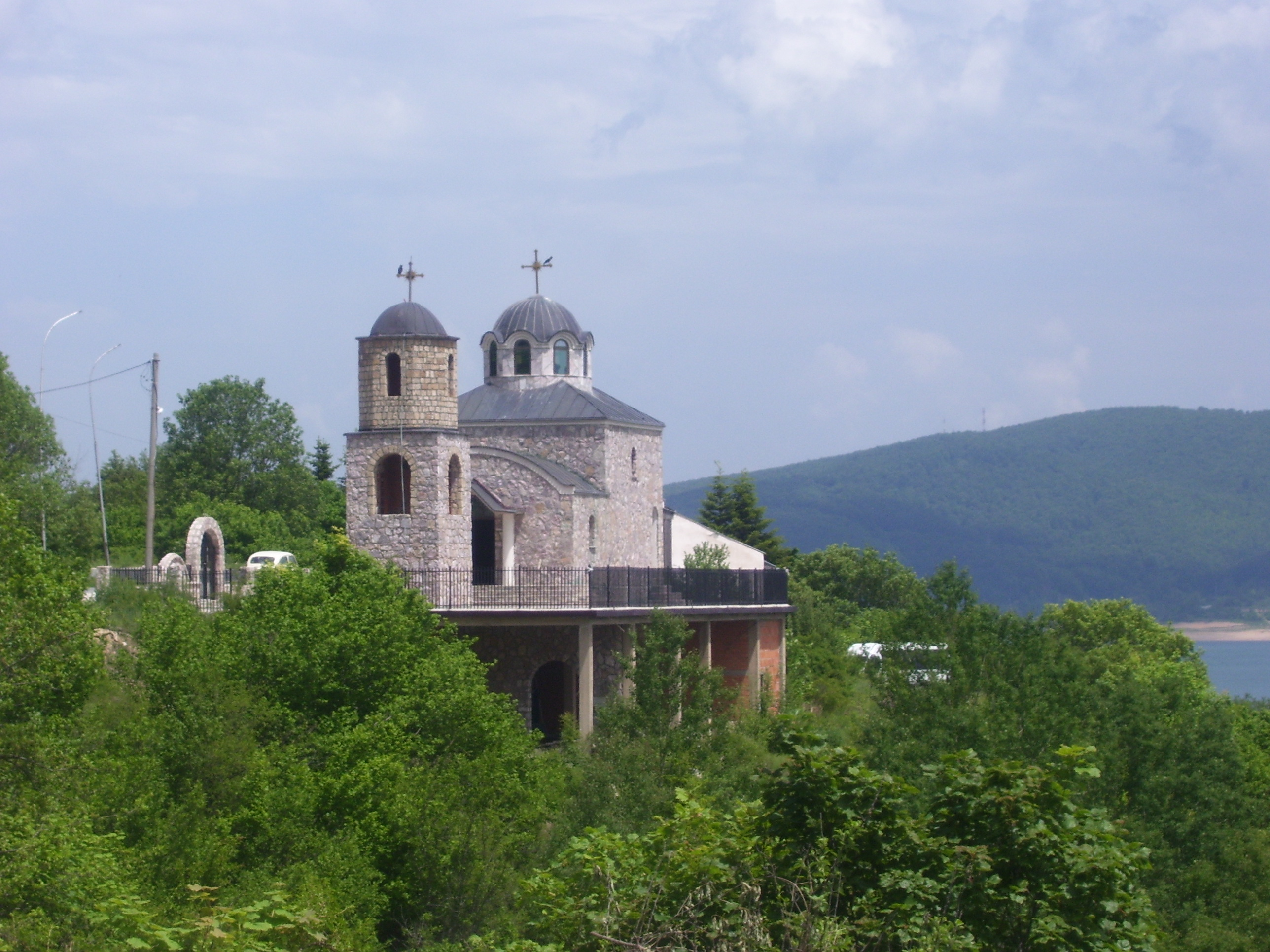 Church in Mavrovi Anovi, Republic of Macedonia.